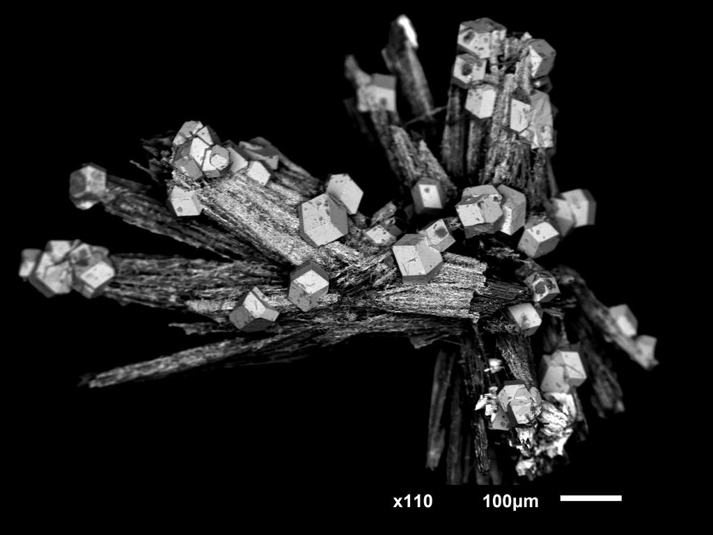 Group of moraesite crystals in association with wilancookite. From Ponte do Piauí claim, Piauí valley, Taquaral, Itinga, Jequitinhonha valley, Minas Gerais, Brazil. Sample in the archives of the Geology Department - Federal University of Ouro Preto.